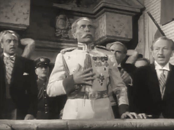 William Edmunds (center) in Where There's Life - trailer (cropped screenshot)